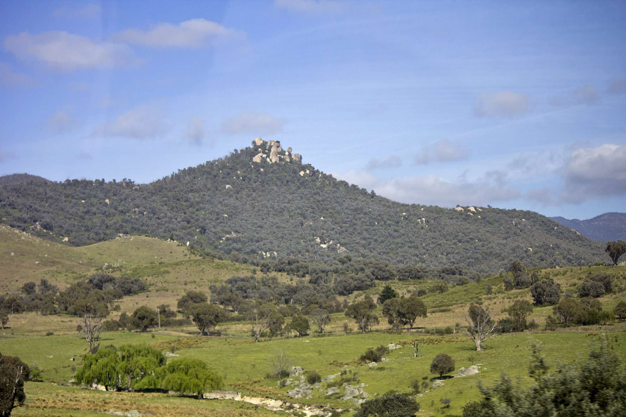 Gibraltar Peak and Gibraltar Creek in the foreground in the district of Paddys River, taken during on route to an hiking tour as part of Australian Capital Tourism's Human Brochure.